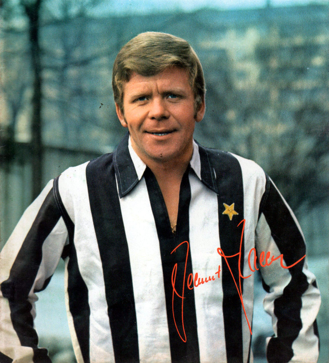 West German footballer Helmut Haller with Juventus F.C. in the 1st half of the 1969–70 season.